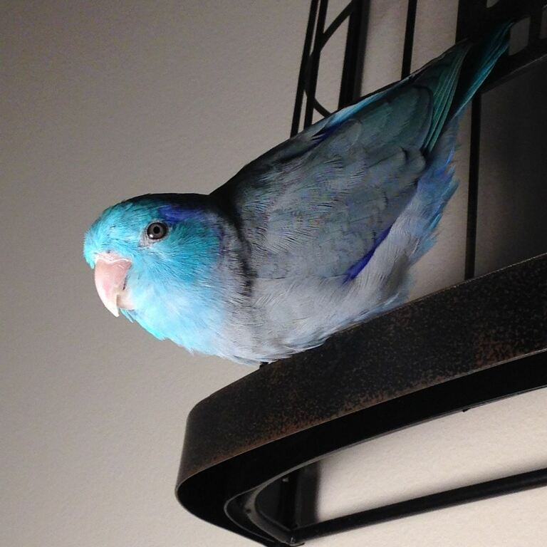 Blue male Pacific Parrotlet named Mr. Pickles